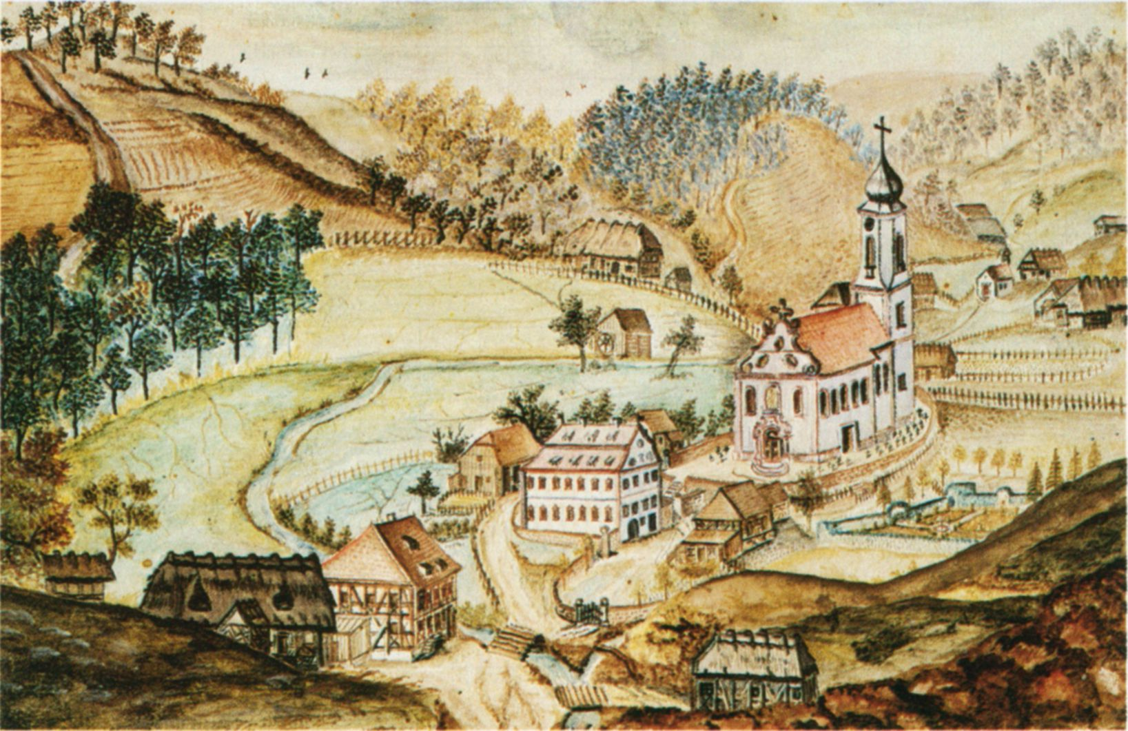 Village Schweighausen with parish church St. Romanus, Schuttertal, Baden-Württemberg, Germany, end of 18th century